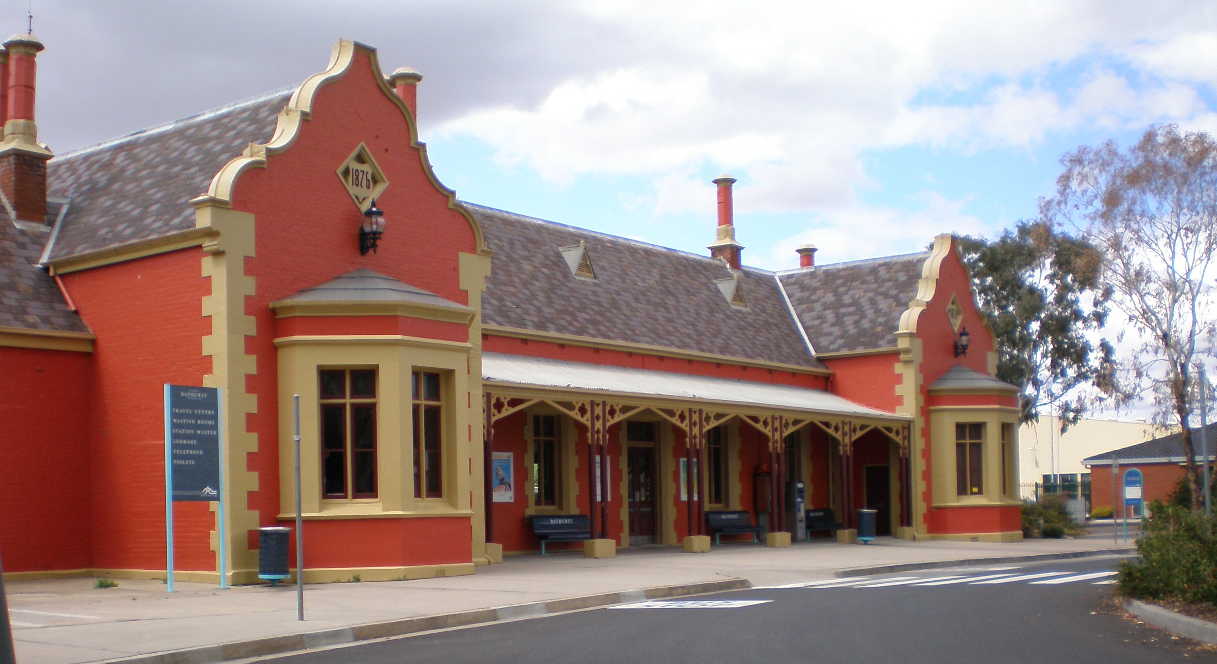 The front of Bathurst railway station. The bus bay is visible at the front of the station. The carpark is off picture to the right. Taken from near the bus entrance to the bus bay.